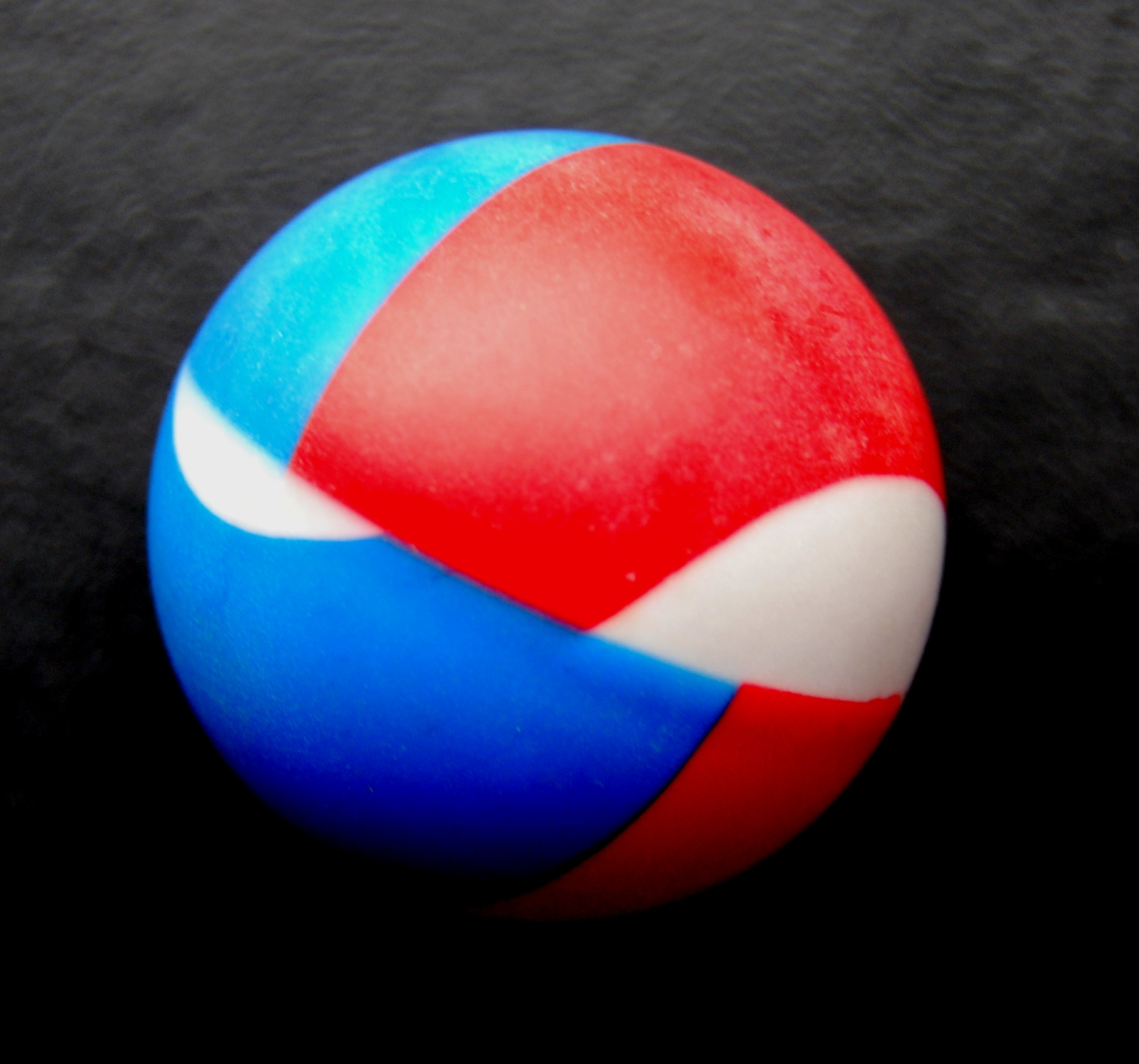 Table Tennis Ball for Training Recognizing The Spin